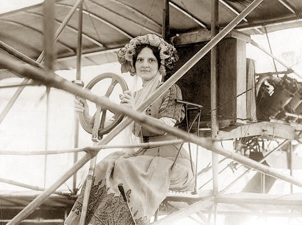 Lena Pearl Neff Curtiss, wife of Glenn Curtiss, aviation pioneer.